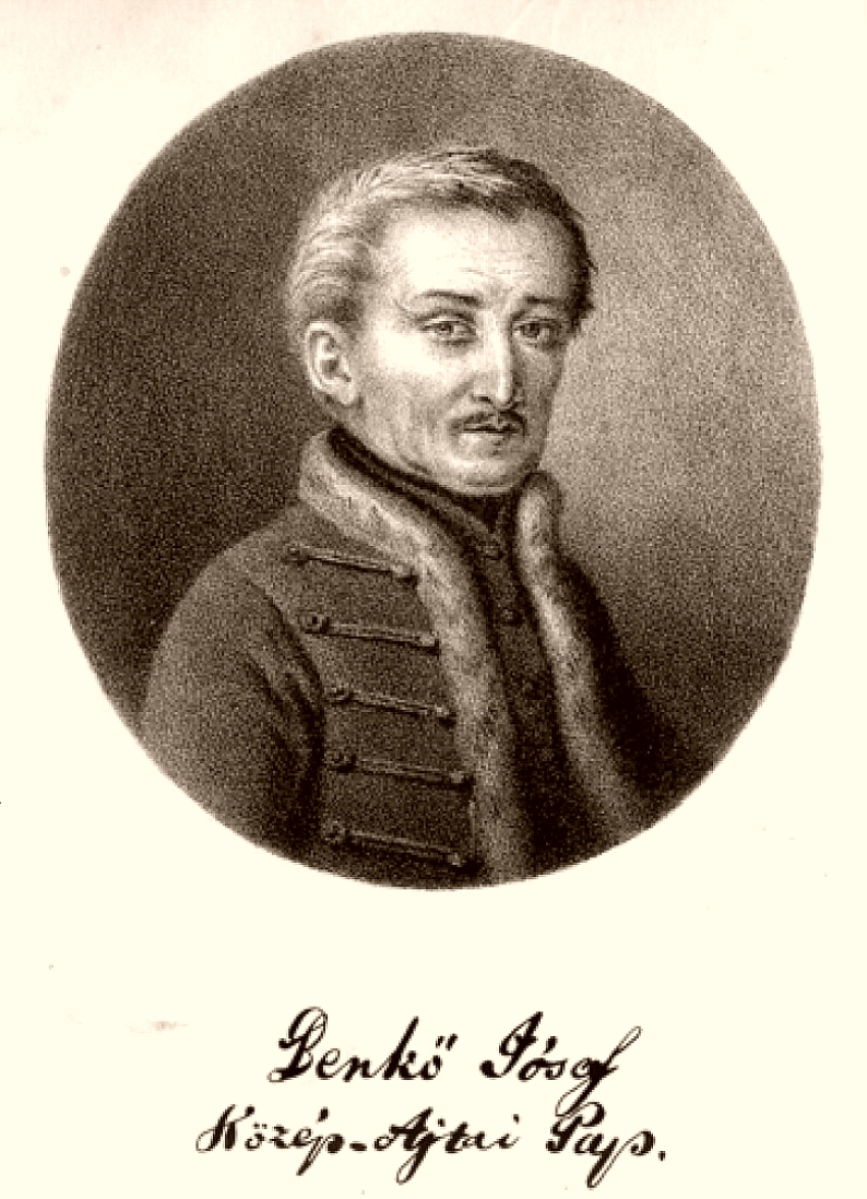 József Benkő